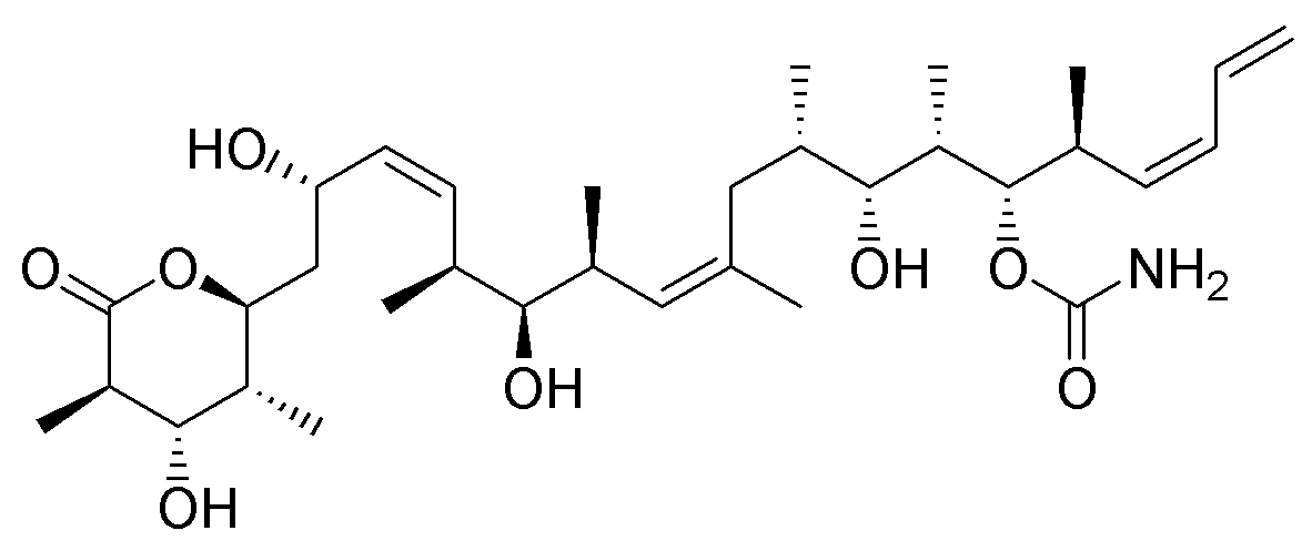 Description: Chemical structure of (+)-Discodermolide. Author, date of creation: selfmade by ~K, 04 December 2005. Source: Gunasekera, S. P.; Gunasekera, M.; Longley, R. E.; Schulte, G. K. J. Org. Chem. 1990, 55, 4912-4915. Copyright: Public domain. (PD) Comments: high-resolution b/w PNG; ChemDraw / The GIMP.